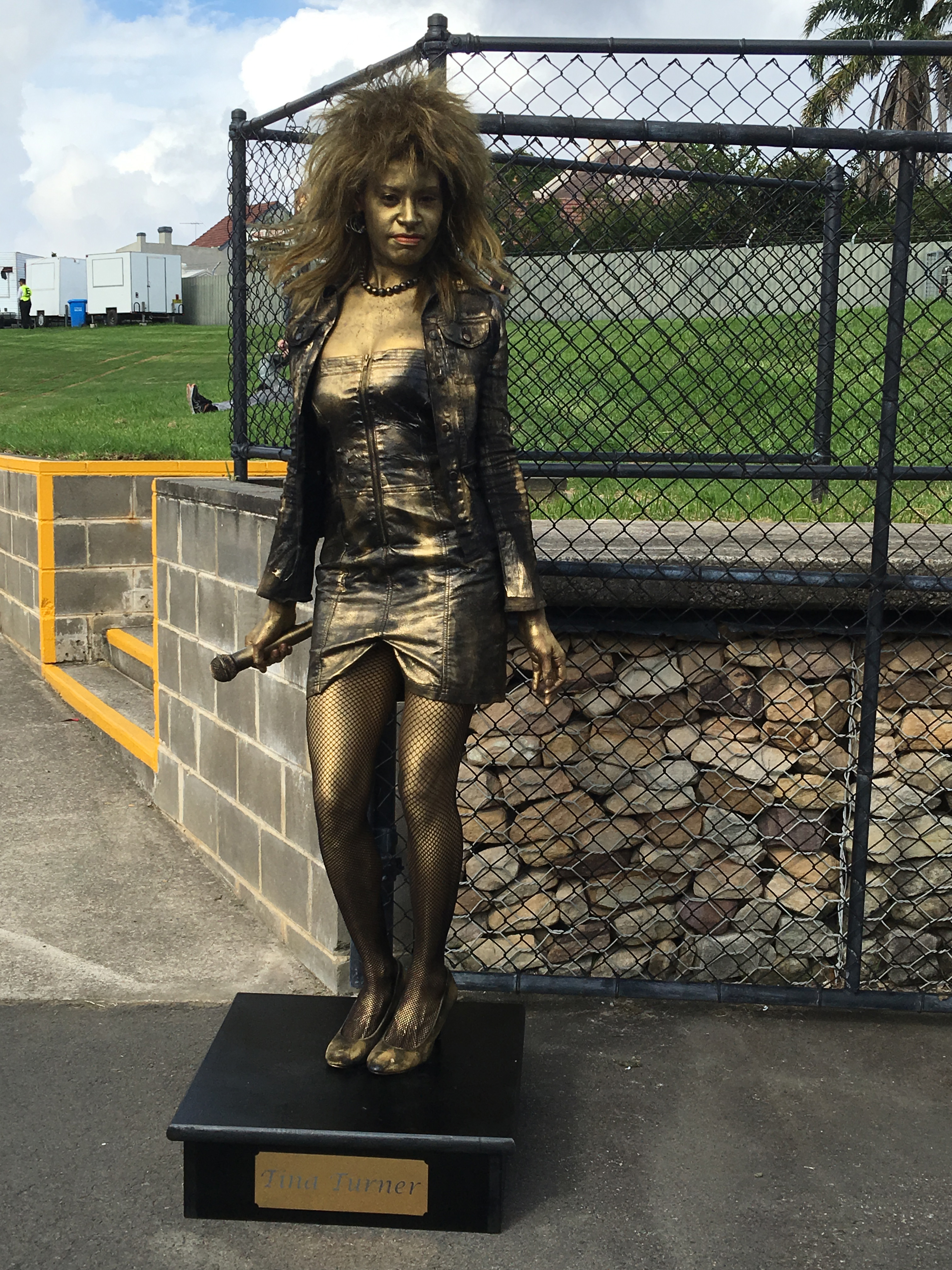 Tina Turner human statue, New South Wales, Australia.